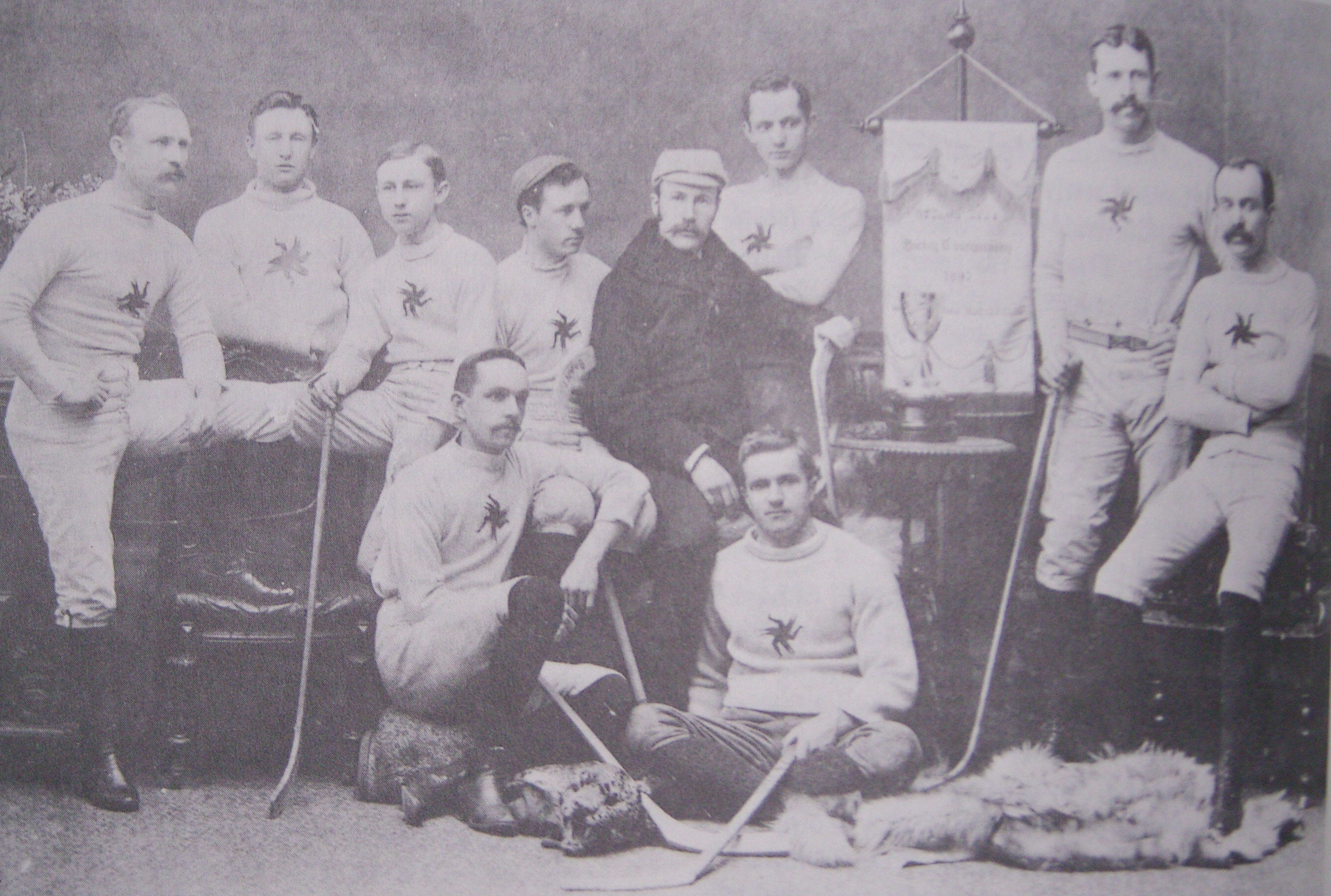 Ottawa Hockey Club, March 1891 Back Row, L to R: H. Kirby, A. Morel, C. Kirby, H.Y. Russell, F.M.S. Jenkins, W.C. Young, ?, ? Front Row, L to R: R. Bradley, J. Kerr